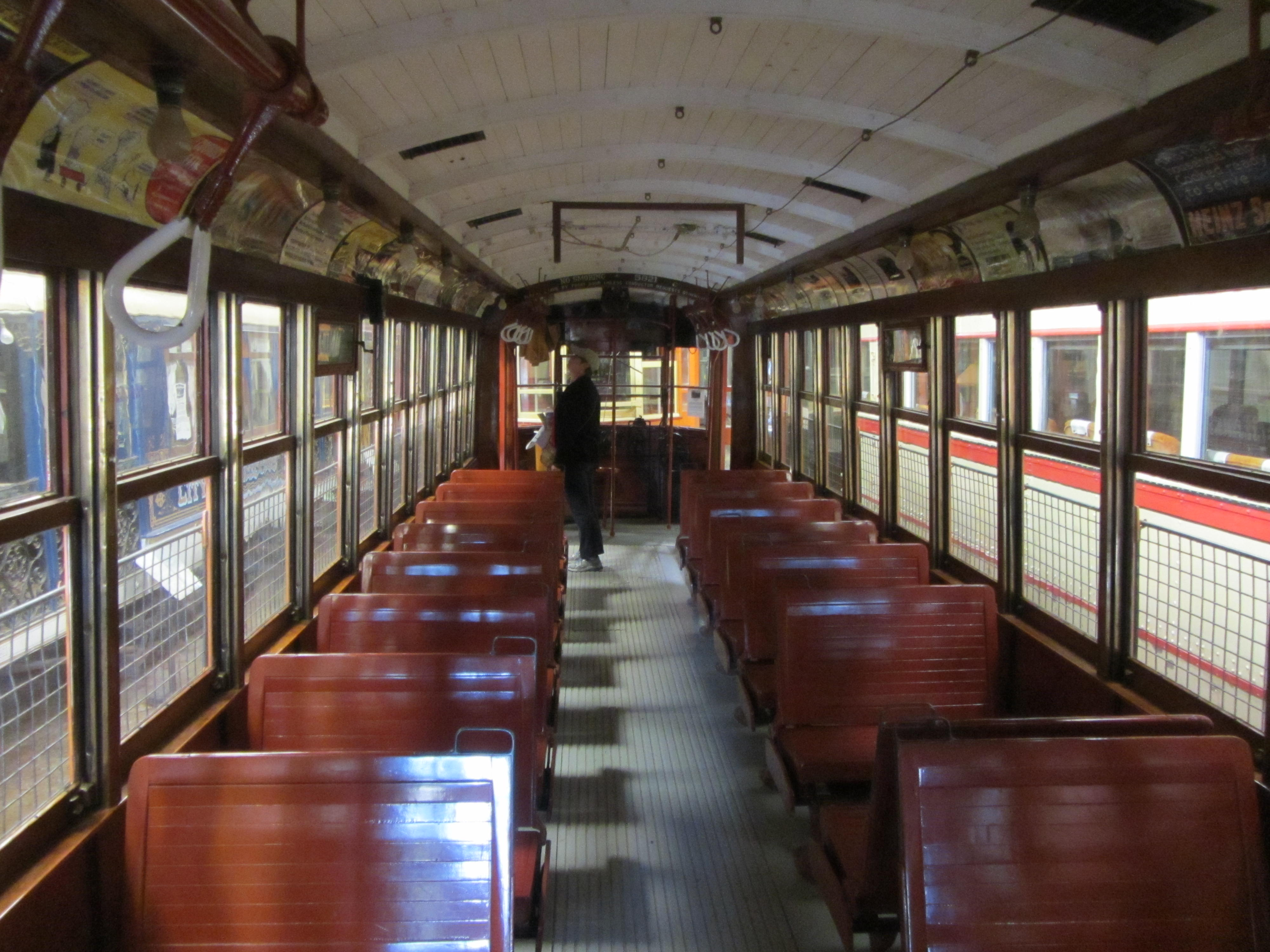 Interior of BERy 5821 in September 2012